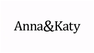 Title card of the Channel 4 television series Anna & Katy